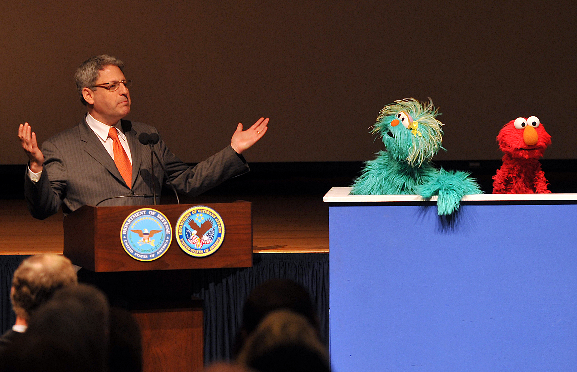 Gary Knell, president and CEO of Sesame Workshop and Sesame Street's Elmo and Rosita, speaks with Elmo and Rosita during the Pentagon screening of a Sesame Street special, "Coming Home: Military Families Cope with Change," at the Pentagon, March 18, 2009. DoD photo by Cherie Cullen